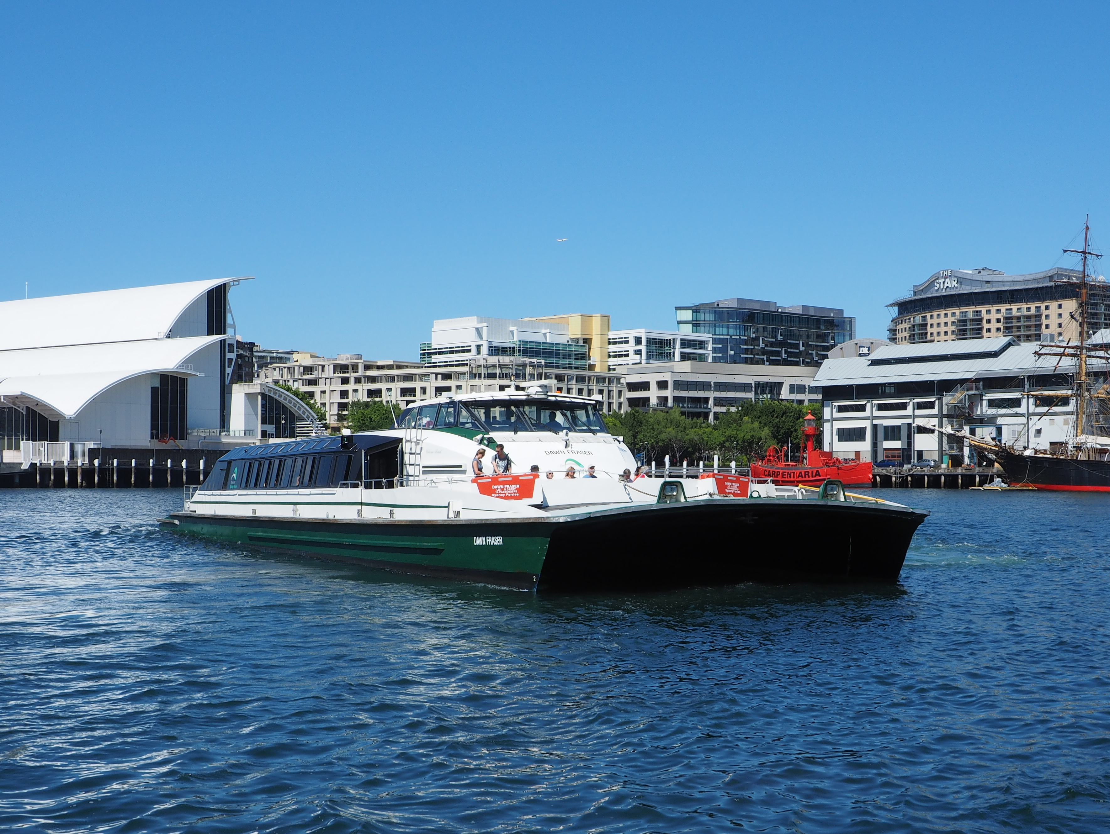 The RiverCat ferry Dawn Fraser pulling away from King Street Wharf